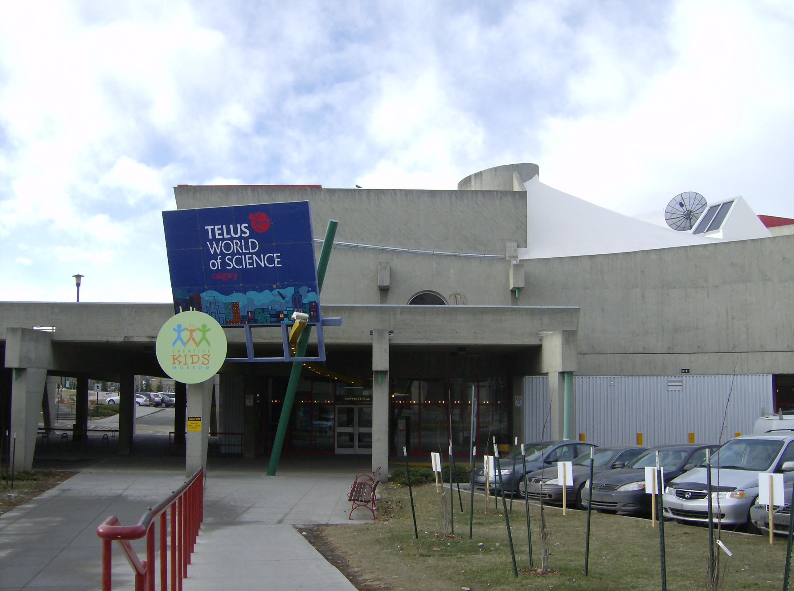 TELUS World of Science, Calgary located at 701 - 11 Street S.W., Calgary, Alberta, Canada.